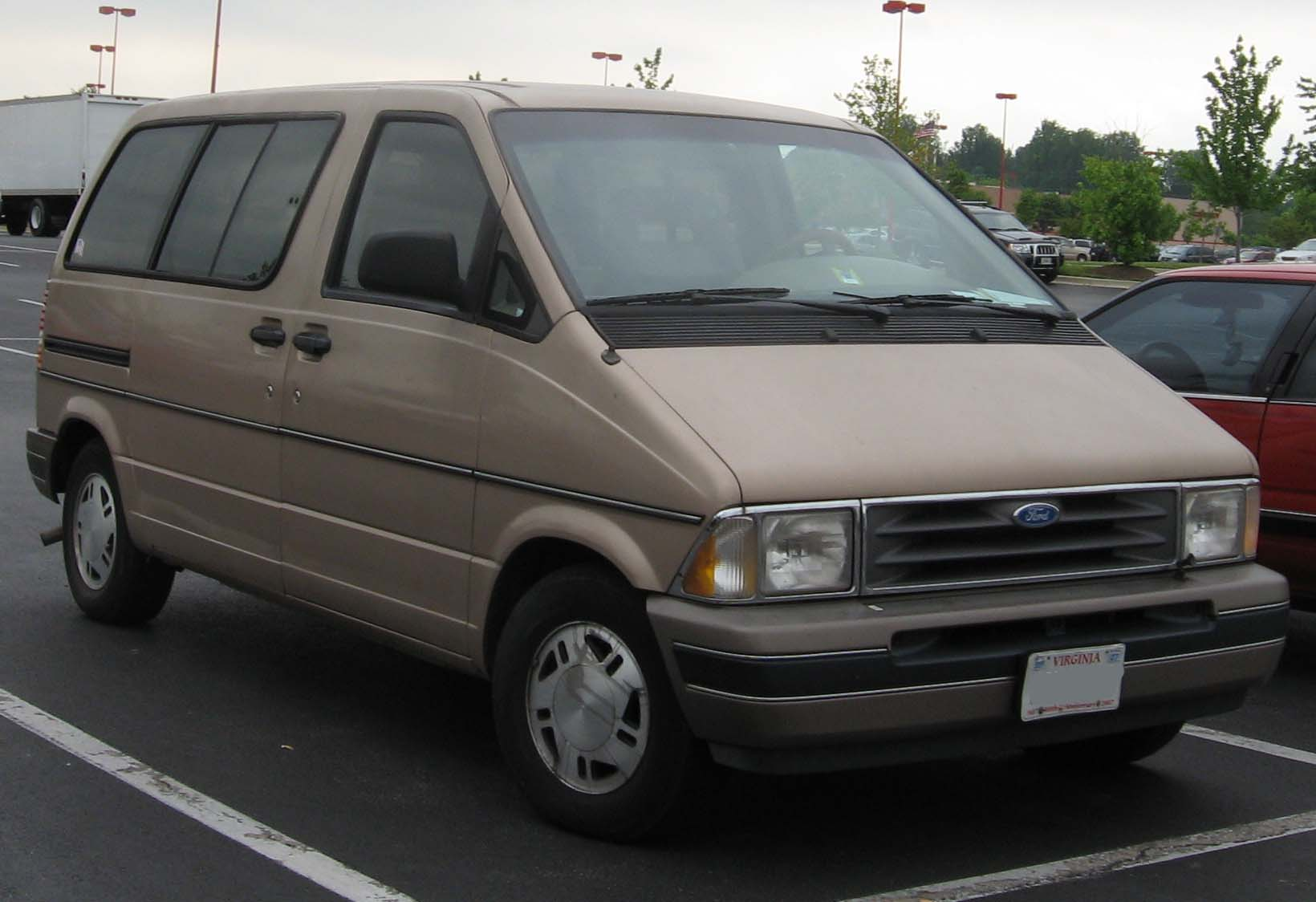 1993-1997 Ford Aerostar photographed in USA.